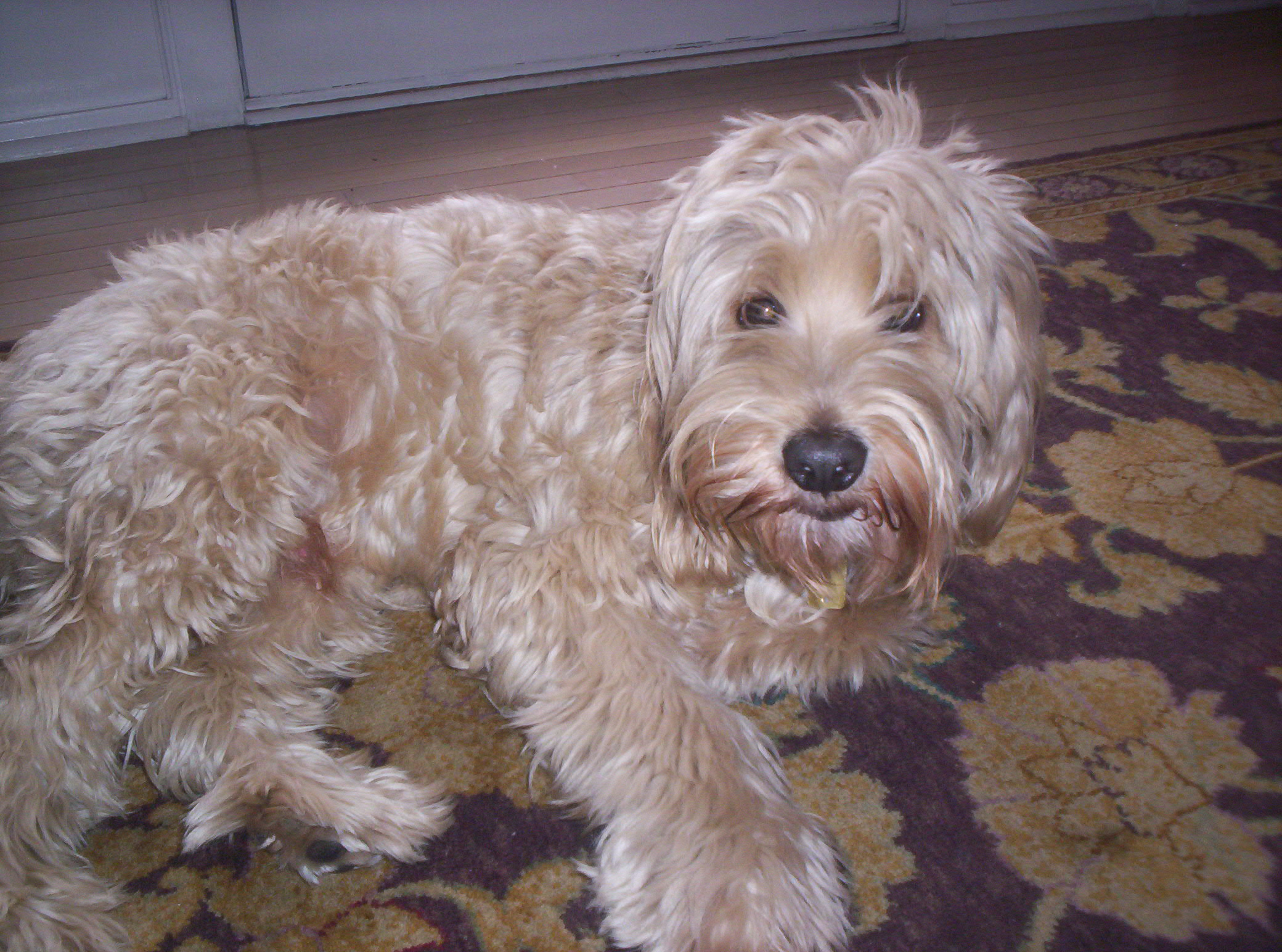 Rocky, a two-year-old cockapoo.